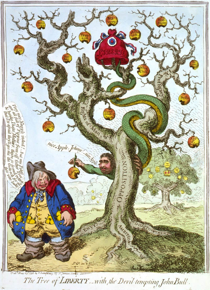 The Tree of LIBERTY, – with, the Devil tempting John Bull: A caricature by James Gillray, showing Charles James Fox as Satan, tempting John Bull with the rotten fruit of the opposition tree of Liberty. John's pockets are already full with the golden apples of the loyalist tree in the background. Round a bare and decayed oak tree is twined a serpent with the head of Fox; he holds a damaged apple inscribed "reform" to John Bull, who is fat and his pockets bulge with golden apples. The trunk of the tree is "opposition"; its roots are: envy, ambition, disappointment. Each rotten apple has an inscription: democracy, treason, slavery, etc. In the background is an oak in full leaf: its trunk is "Justice", the roots Commons, King, Lords, the branches Laws and Religion. From it hangs a crown surrounded by apples, some inscribed Freedom, Happiness, Security. 1 print : etching, hand-colored. London : pubd. by H. Humphrey, 1798 May 23d.